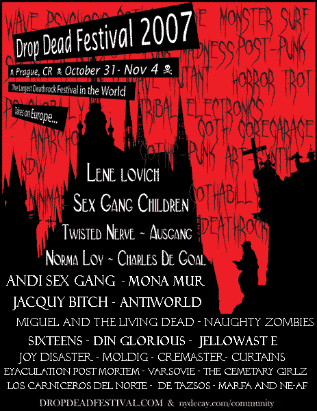 poster from the drop dead festival designed by me